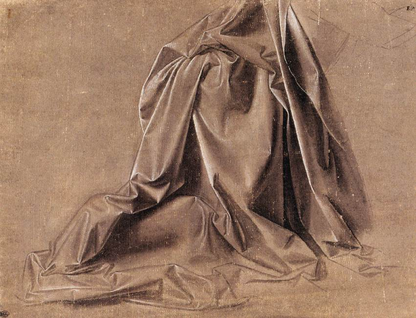 LEONARDO da Vinci Drapery for a seated figure Brush and grey distemper on primed grey linen canvas, 181 x 234 mm Musée du Louvre, Paris